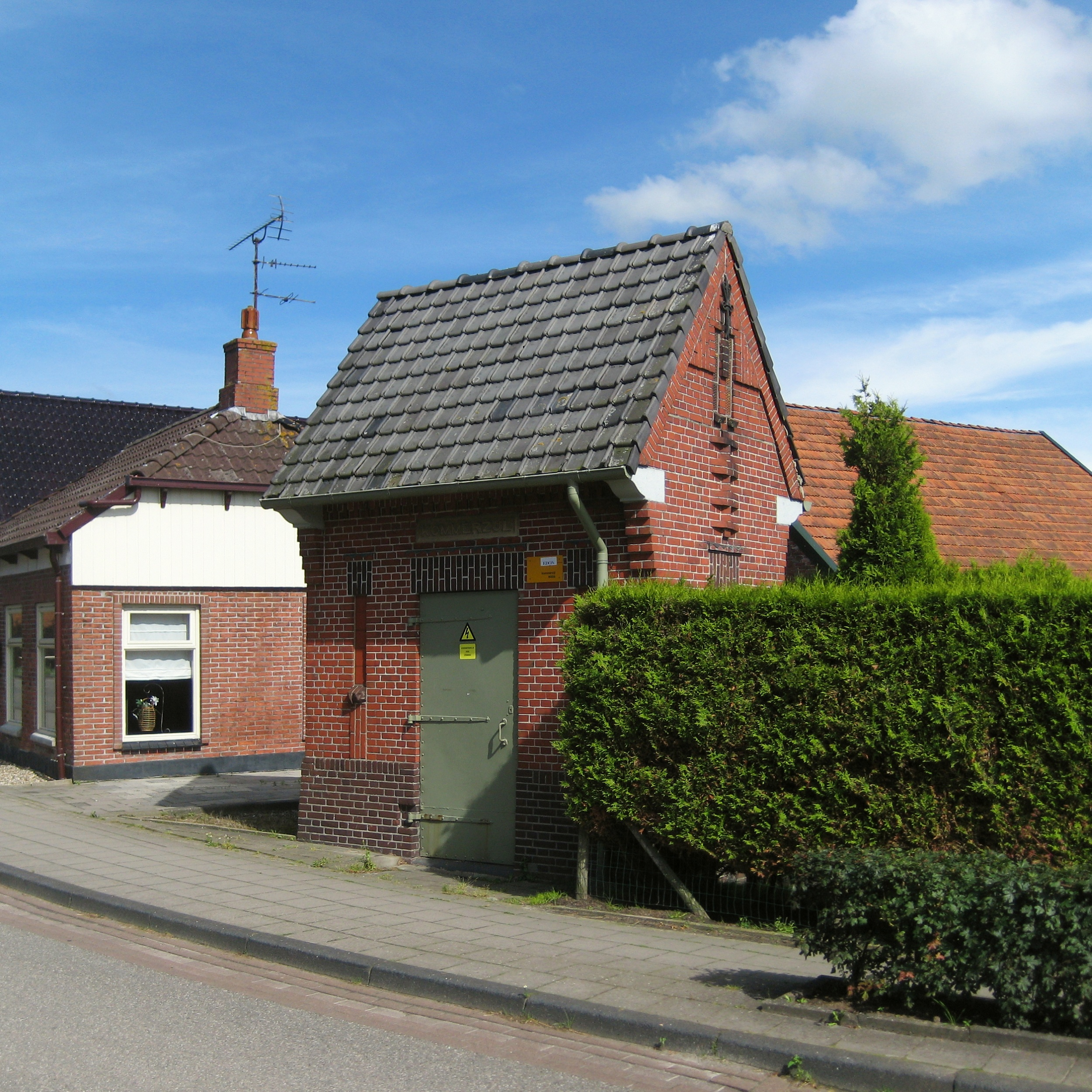 Electricity distribution substation in Kommerzijl, a village in the Dutch province of Groningen.